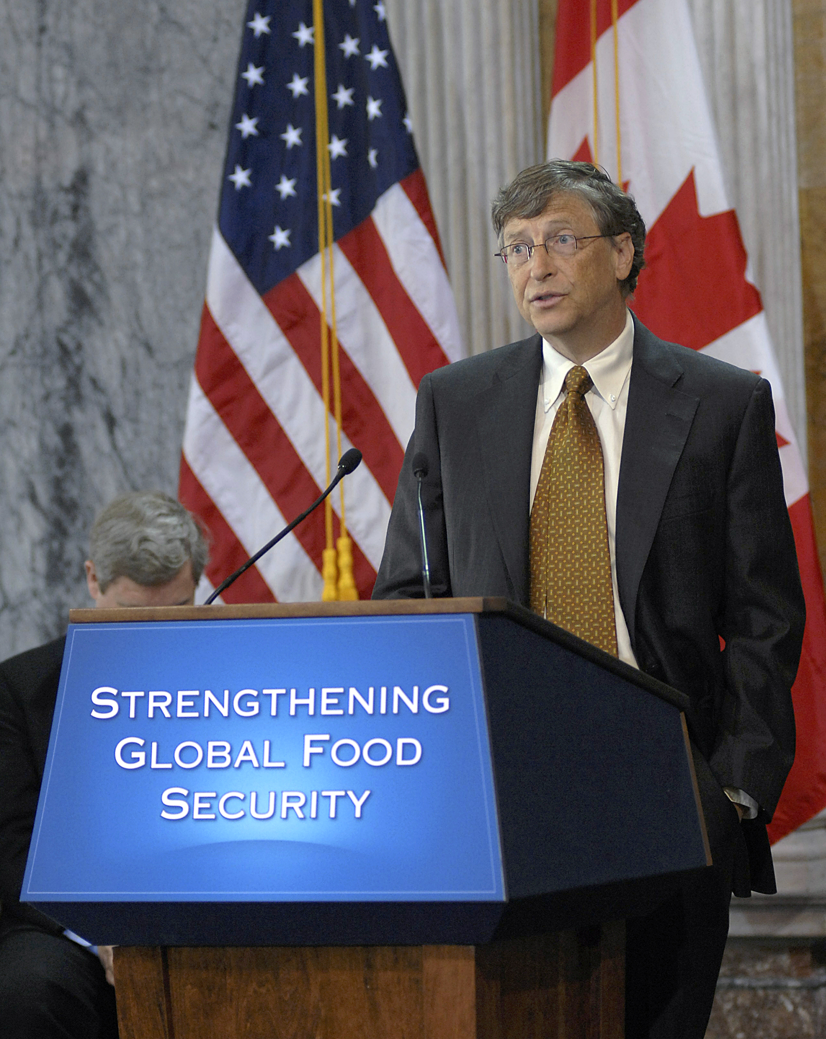 Bill Gates speaking at the annoucement of the International Commitment to fight global hunger and poverty at the Treasury Department on April 22, 2010